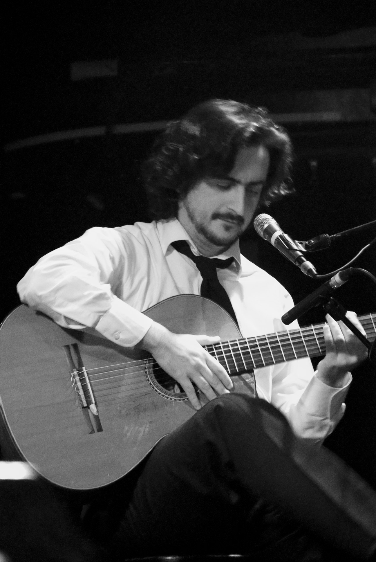 Portuguese quartet band Deolinda playing Melkweg, Amsterdam. Pedro da Silva Martins playing the guitar.